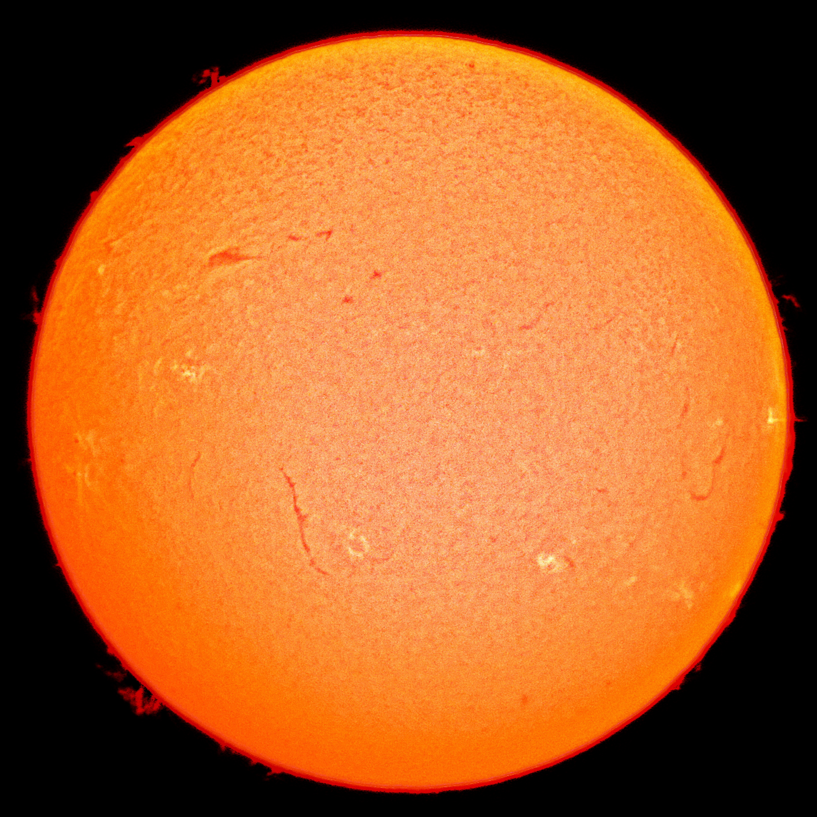 Sun on February 18, 2015. Taken with Canon 60d, Coronado PST, 20mm eyepiece, Vixen Polarie, 1/8 second, iso 400, HDR wavelets in Pixinsight and sharpening in GIMP.